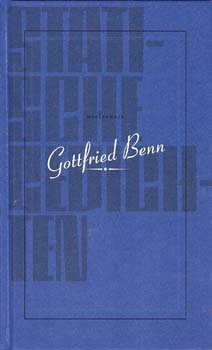 Book cover of Gottfried Benn "Statische Gedichte" 1948